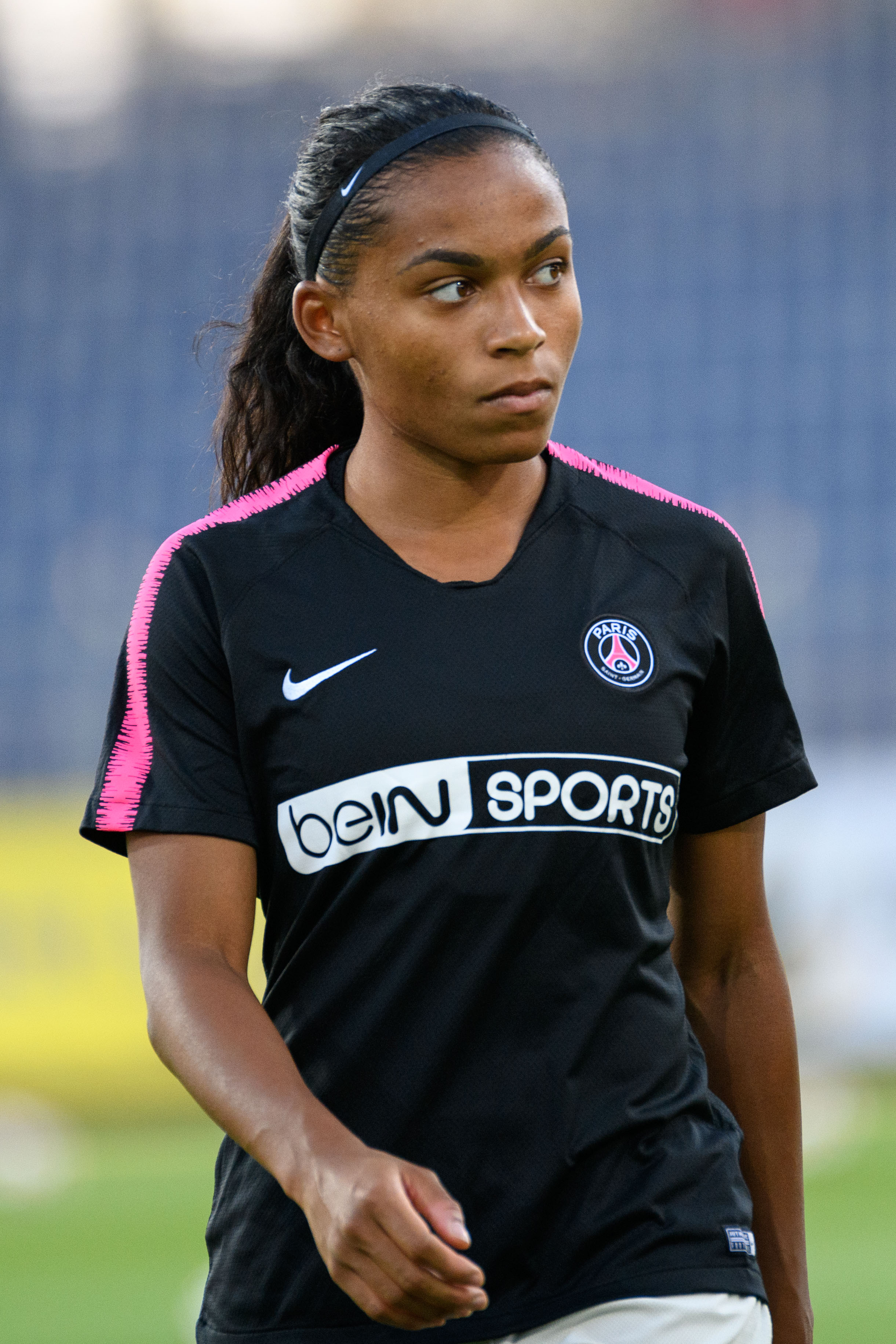 UEFA Women's Champions League 2019 Final Round of 32 SKN St.Poelten vs. Paris Saint Germain 2018/09/12. Picture shows Perle Morroni of PSG